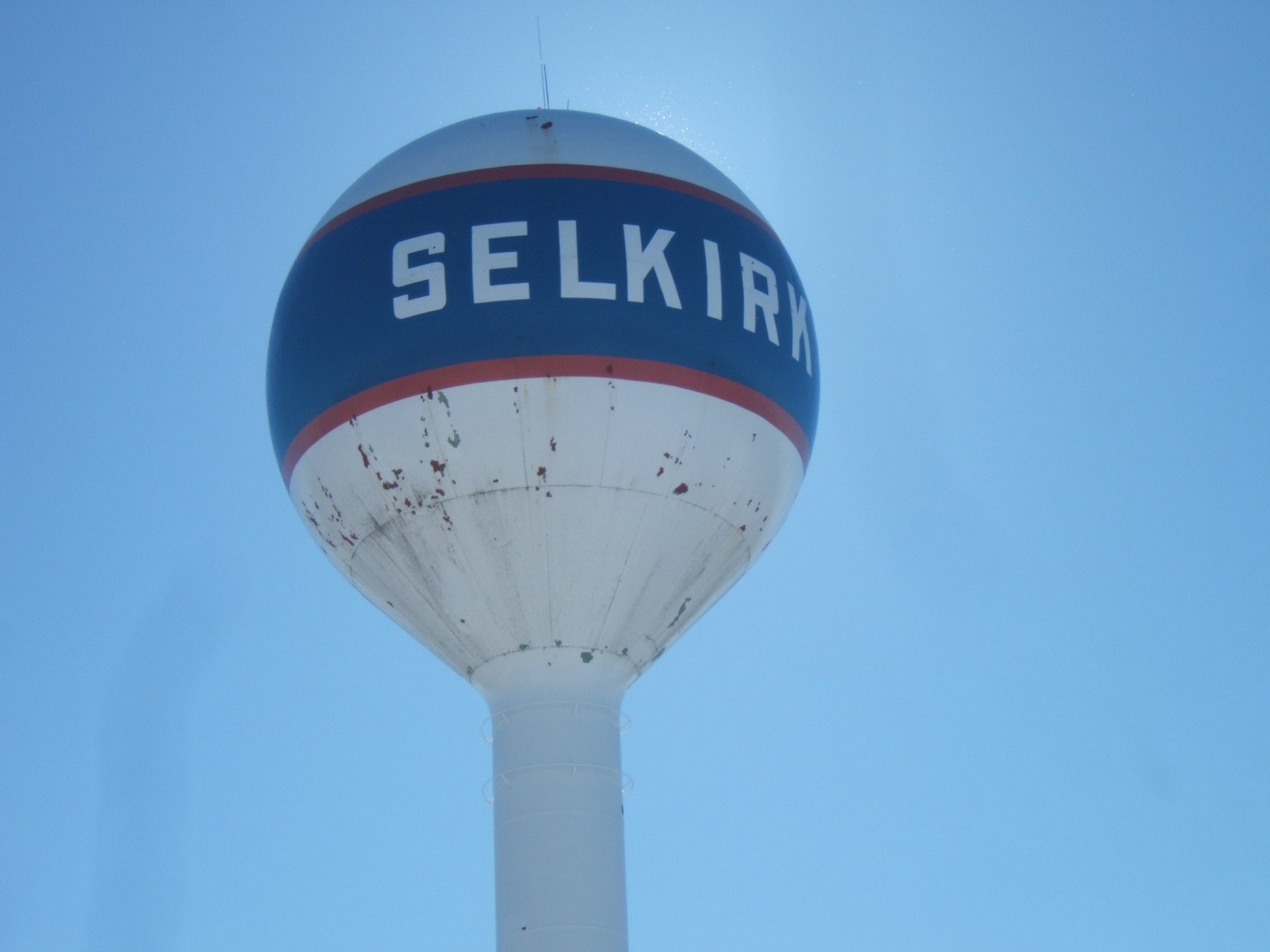 This picture was taken on February 19th 2013 in Selkirk, Manitoba, Canada.